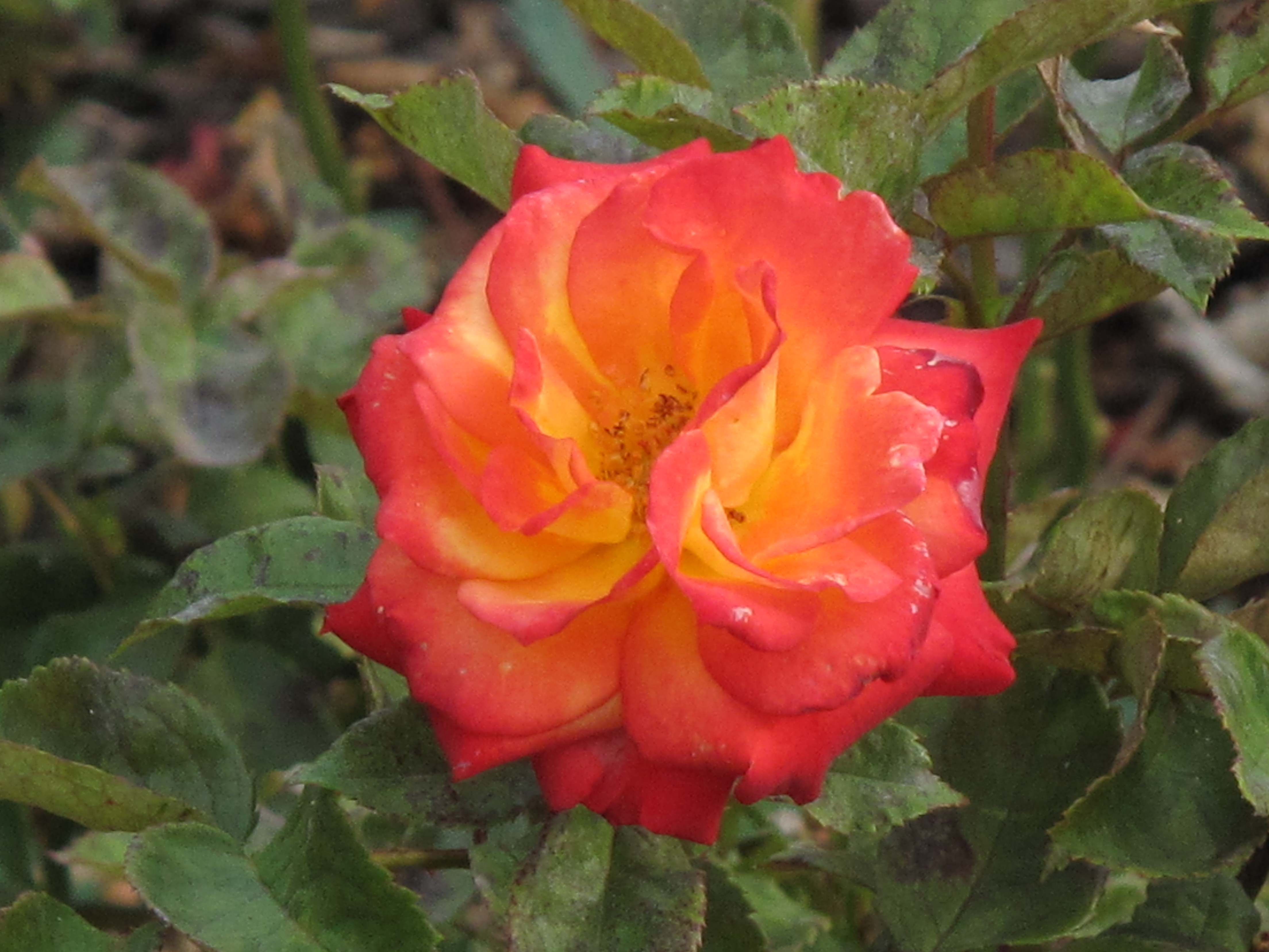 Detail of the rose in Rose Garden, Lidice Memorial, Czech Republic.